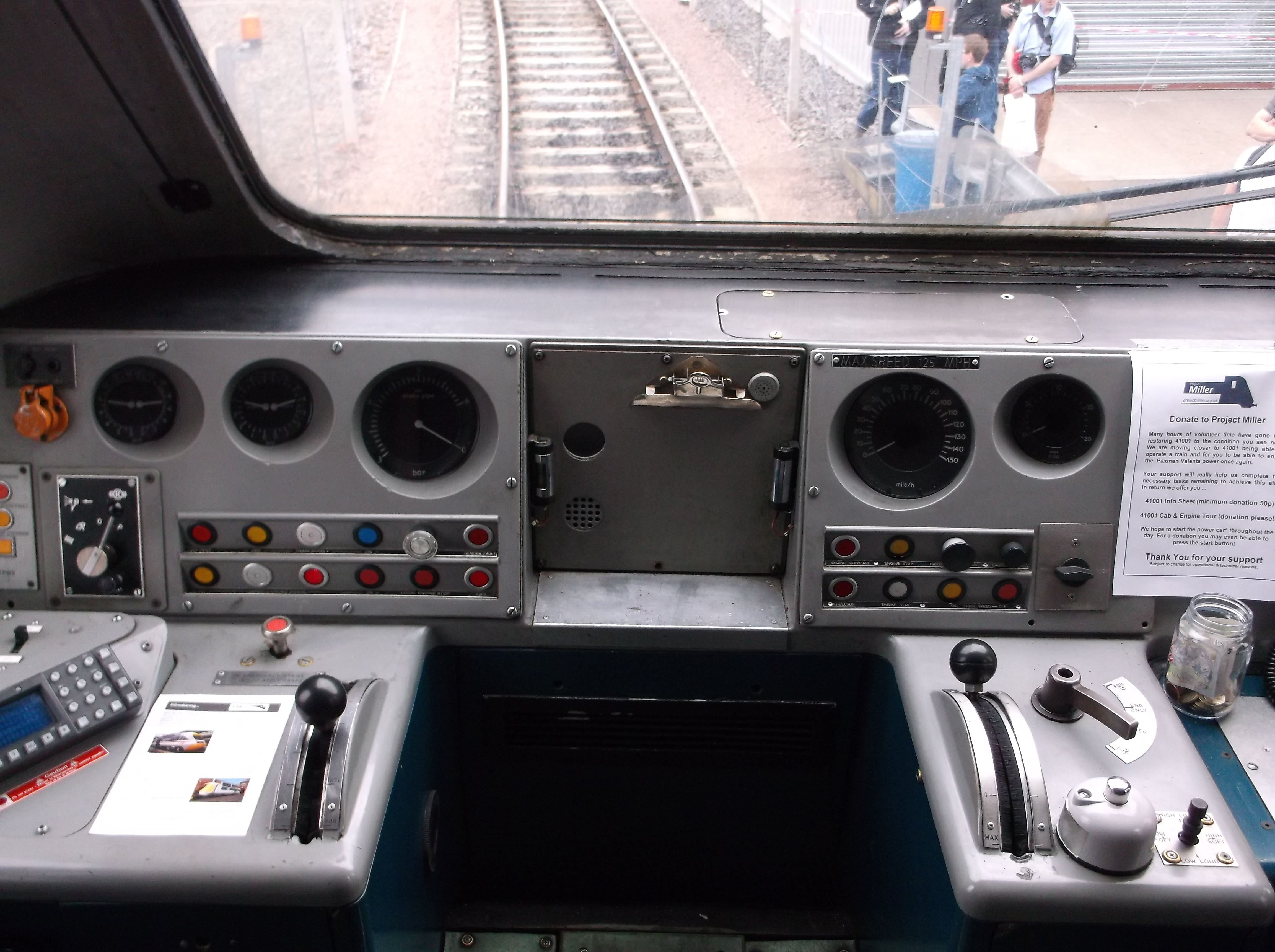 Inside the cab of a production HST power car, 43048 "T.C.B. Miller MBE" at Derby Etches Park open day